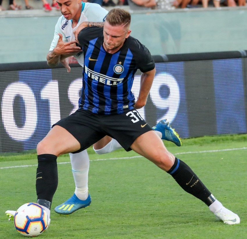 Slovak footballer Milan Škriniar in action with Inter Milan in summer 2018.